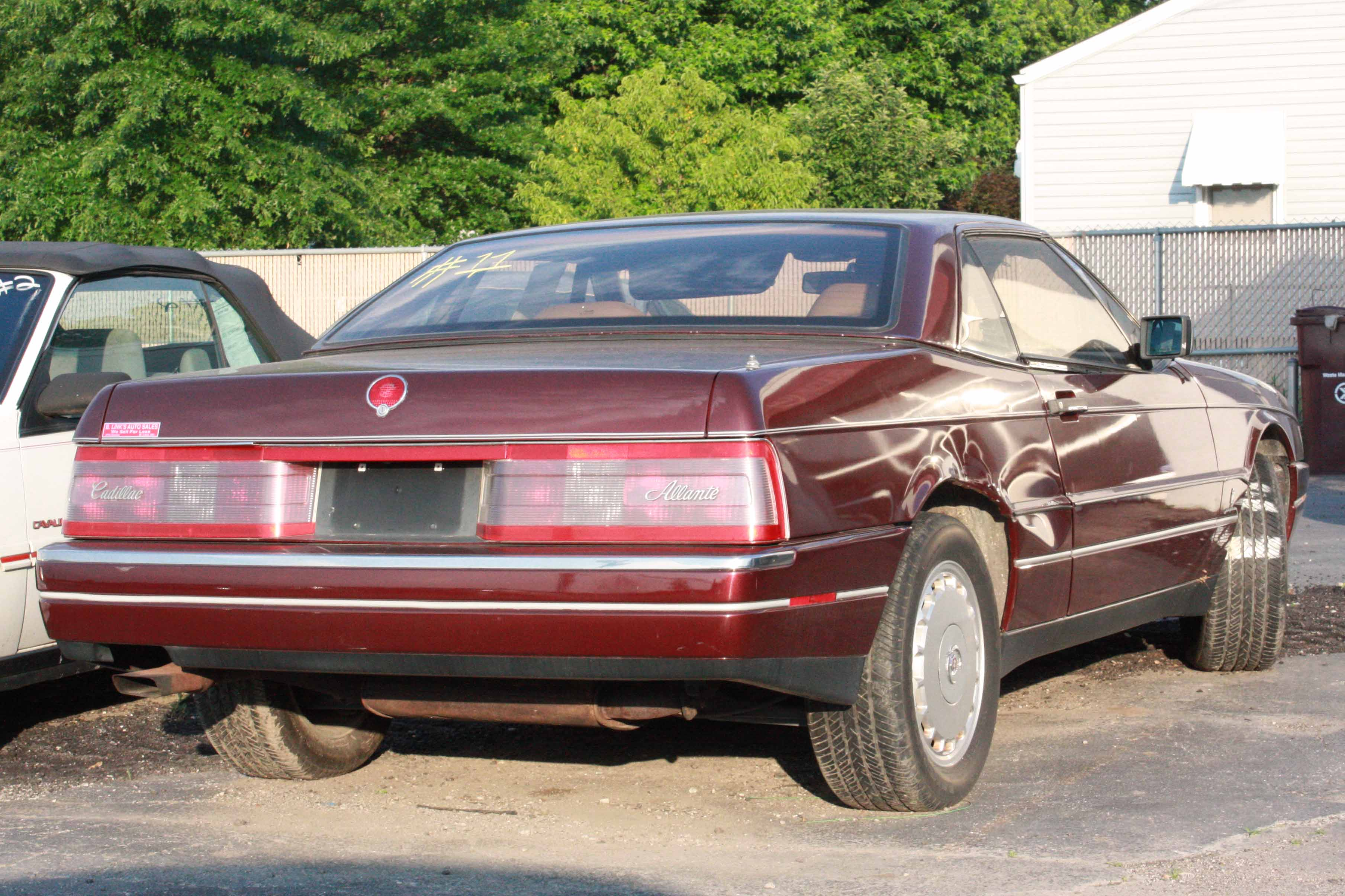 Rear view of a Cadillac Alante